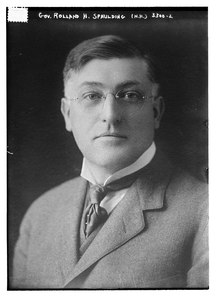 Gov. Rolland H. Spaulding Bain News Service,, publisher. Gov. Rolland H. Spaulding (N.H.) [between ca. 1910 and ca. 1915] 1 negative : glass ; 5 x 7 in. or smaller. Notes: Title from unverified data provided by the Bain News Service on the negatives or caption cards. Forms part of: George Grantham Bain Collection (Library of Congress). Format: Glass negatives. Repository: Library of Congress, Prints and Photographs Division, Washington, D.C. 20540 USA, General information about the Bain Collection is available at Persistent URL: Call Number: LC-B2- 3300-2